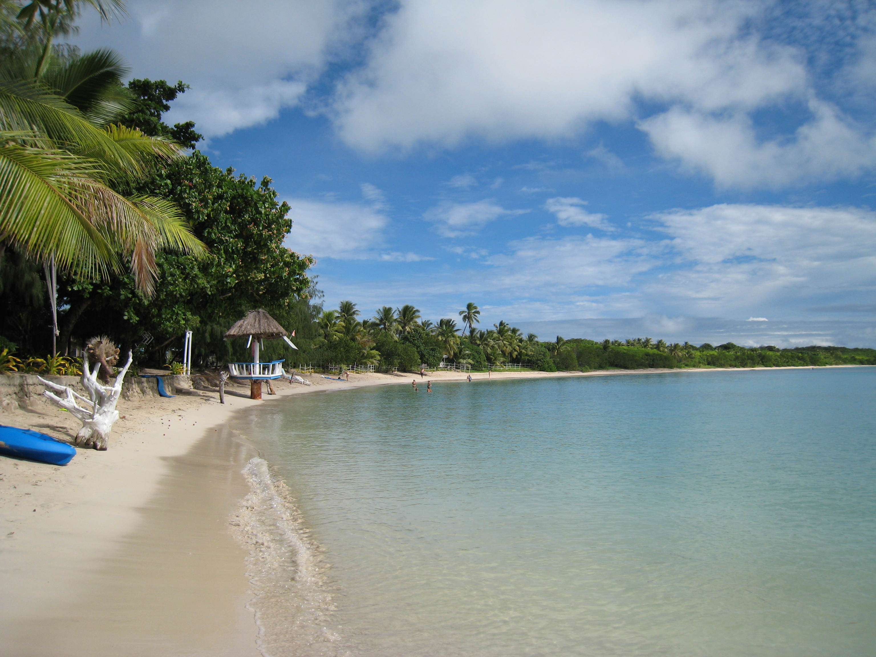 A beach on the Nacula island of Fiji. This particular is located at the Oarsman Bay Lodge